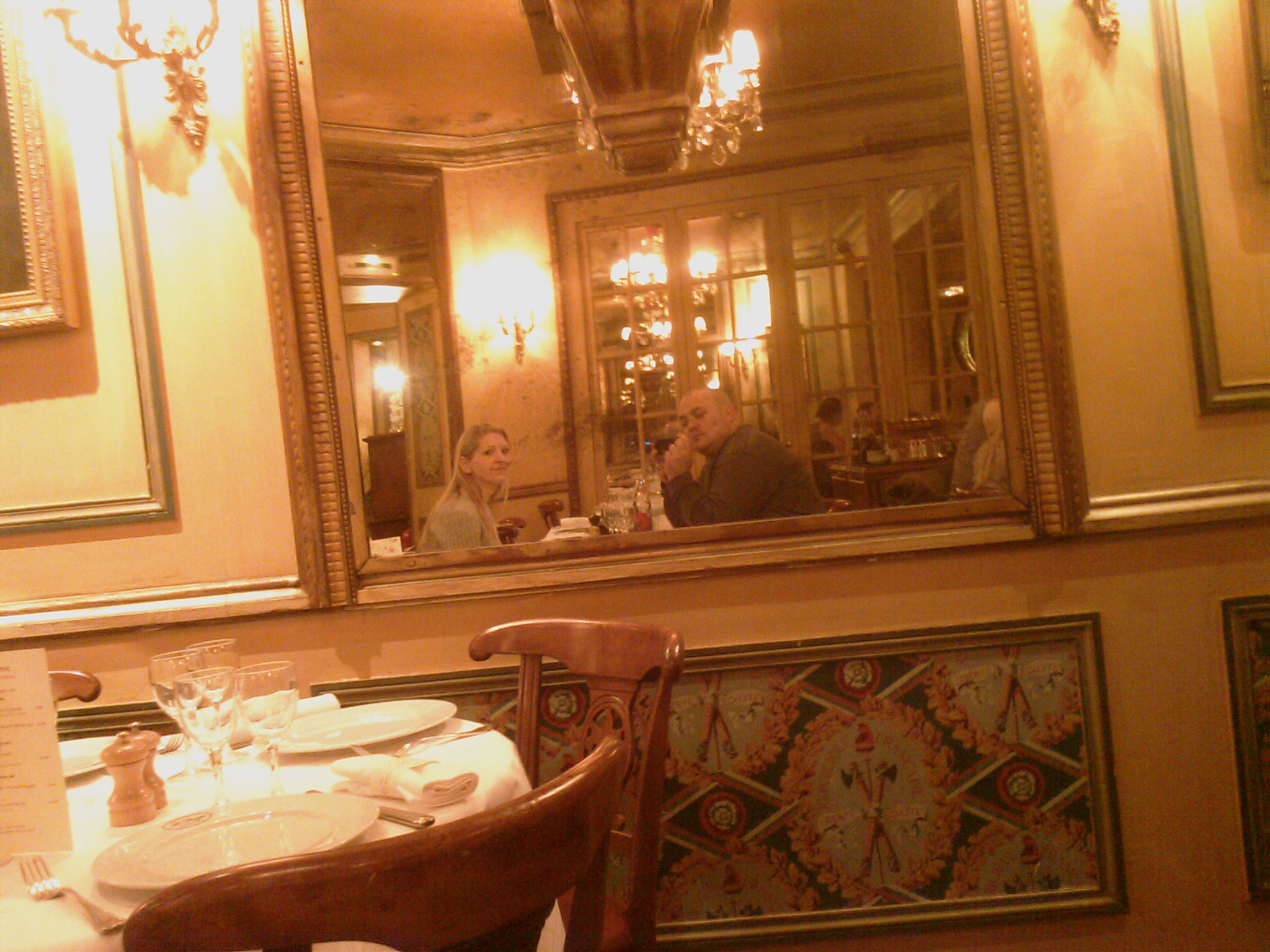 Le Procope in 18th century style